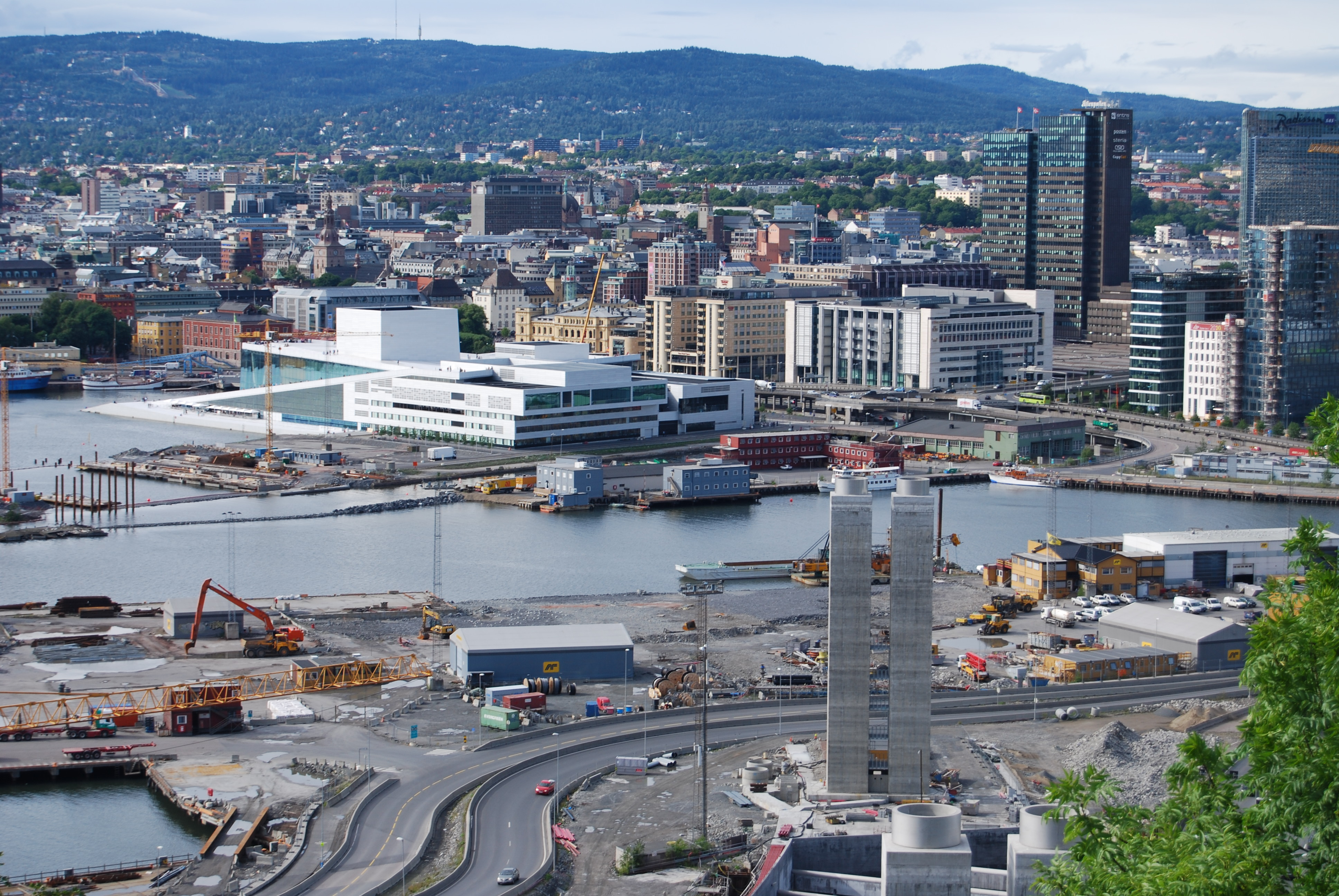 Oslo view July 2009